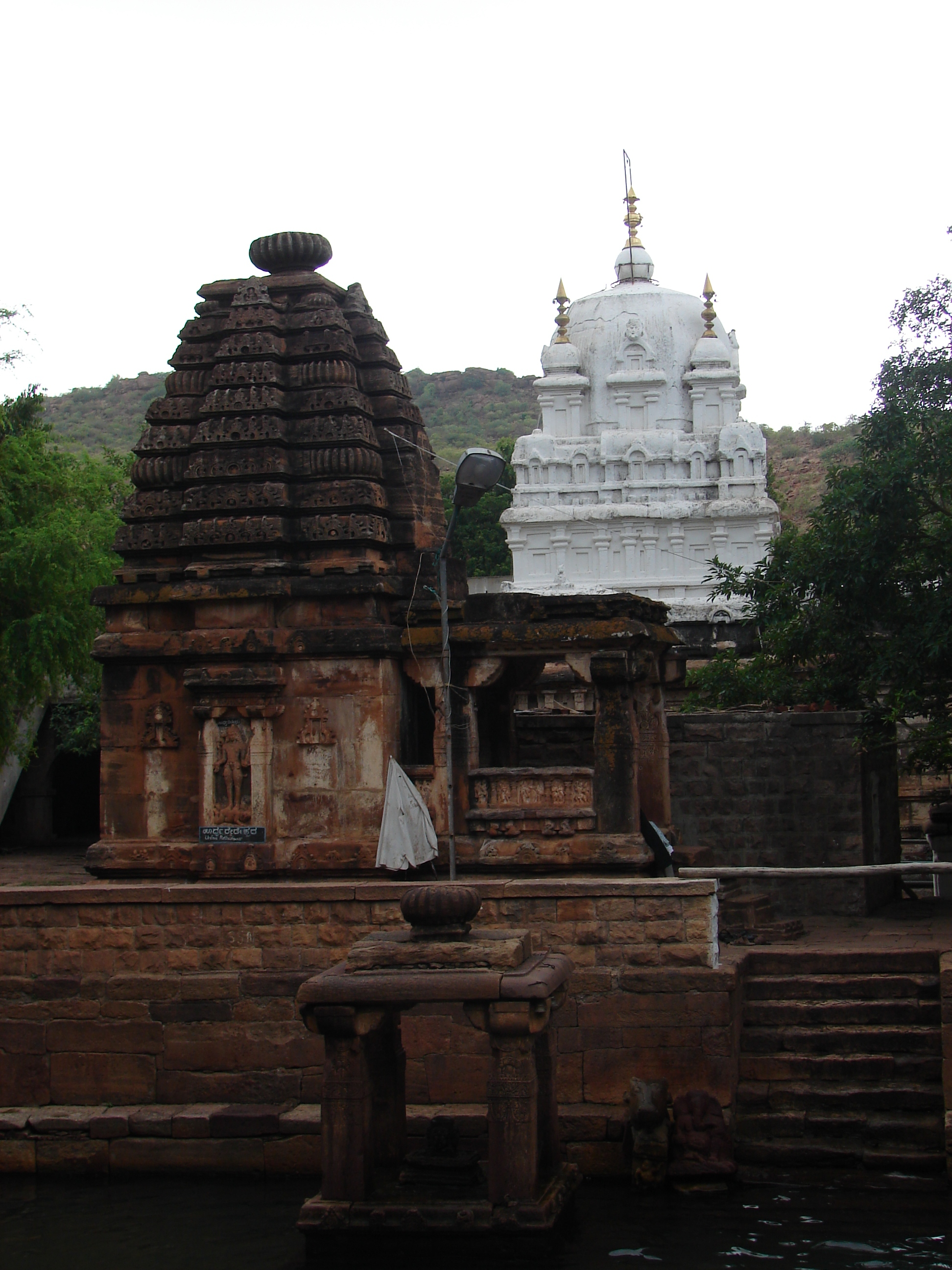 This image was taken at Mahakuta, in Bagalkot district, Karnataka state, India. The Mahakuta group of temples were consecrated in the 6th-7th century time period by the Badami Chalukyas. The main shrine, the Mahakutesvara temple (also spelt Mahakuteshvara) in the dravida style is painted white. The Sangamesvara temple (also spelt Sangameshvara) in nagara style is by its side. The water tank is fed by a natural mountain spring.